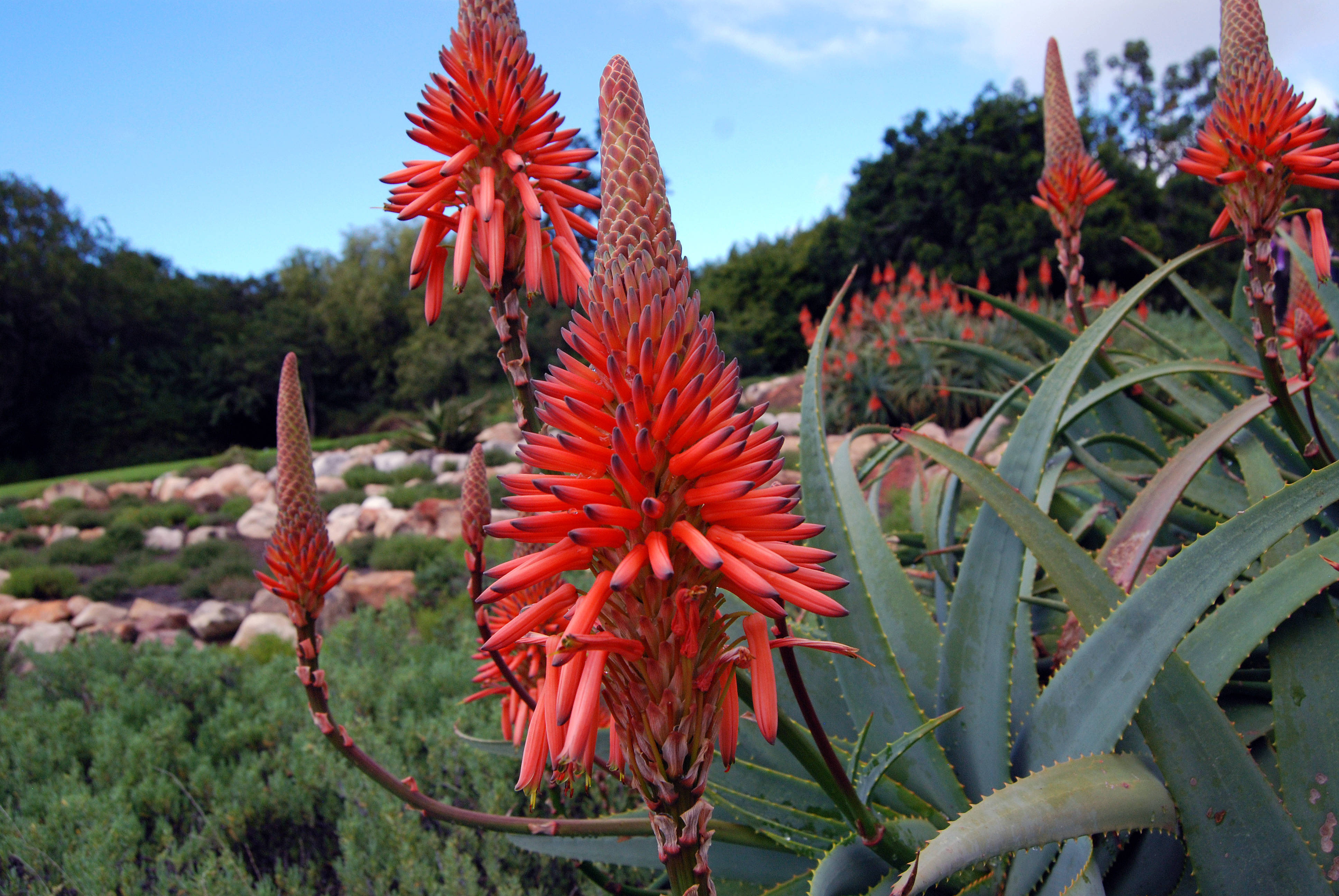 Kirstenbosch National Botanical Gardens / Aloe arborescens "Rycroft"